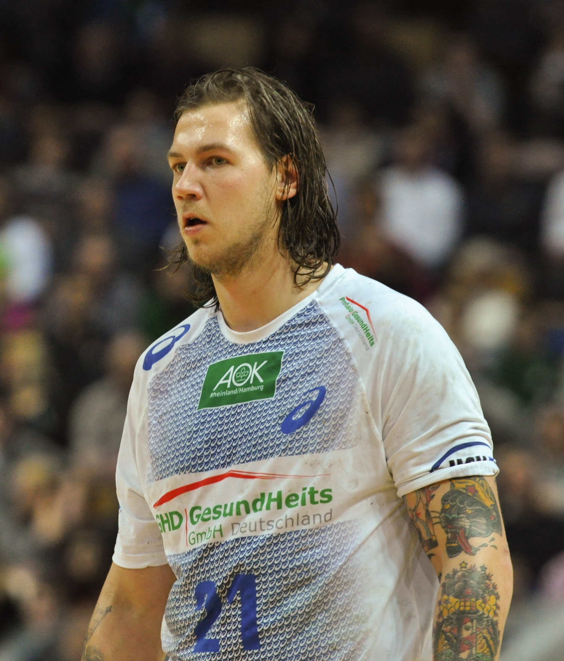 taken on February 8, 2014 during DKB Handball-Bundesliga match between HSG Wetzlar and HSV Hamburg